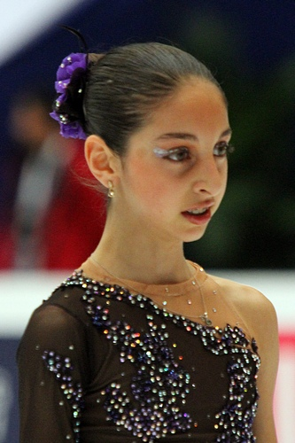 Yasmin Siraj at the 2010-2011 ISU Junior Grand Prix Final.